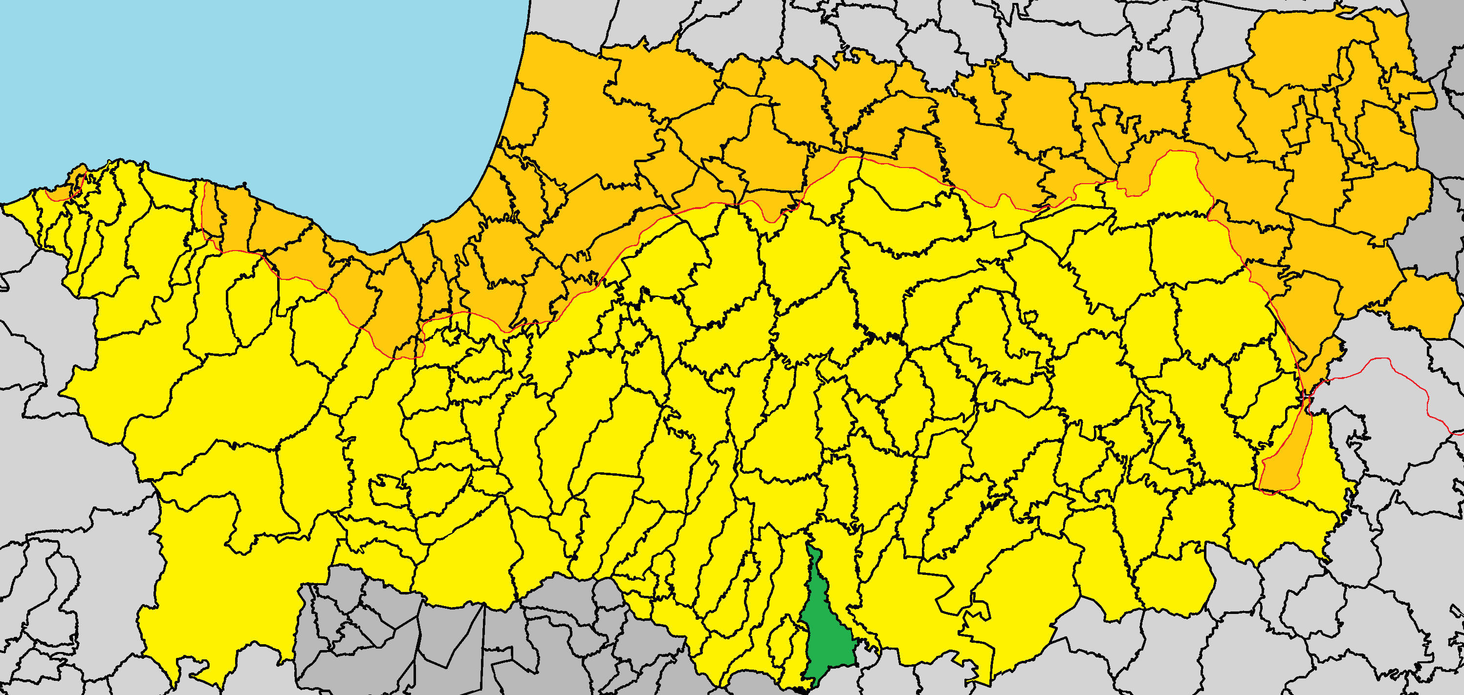 Farmakas in Nicosia District.